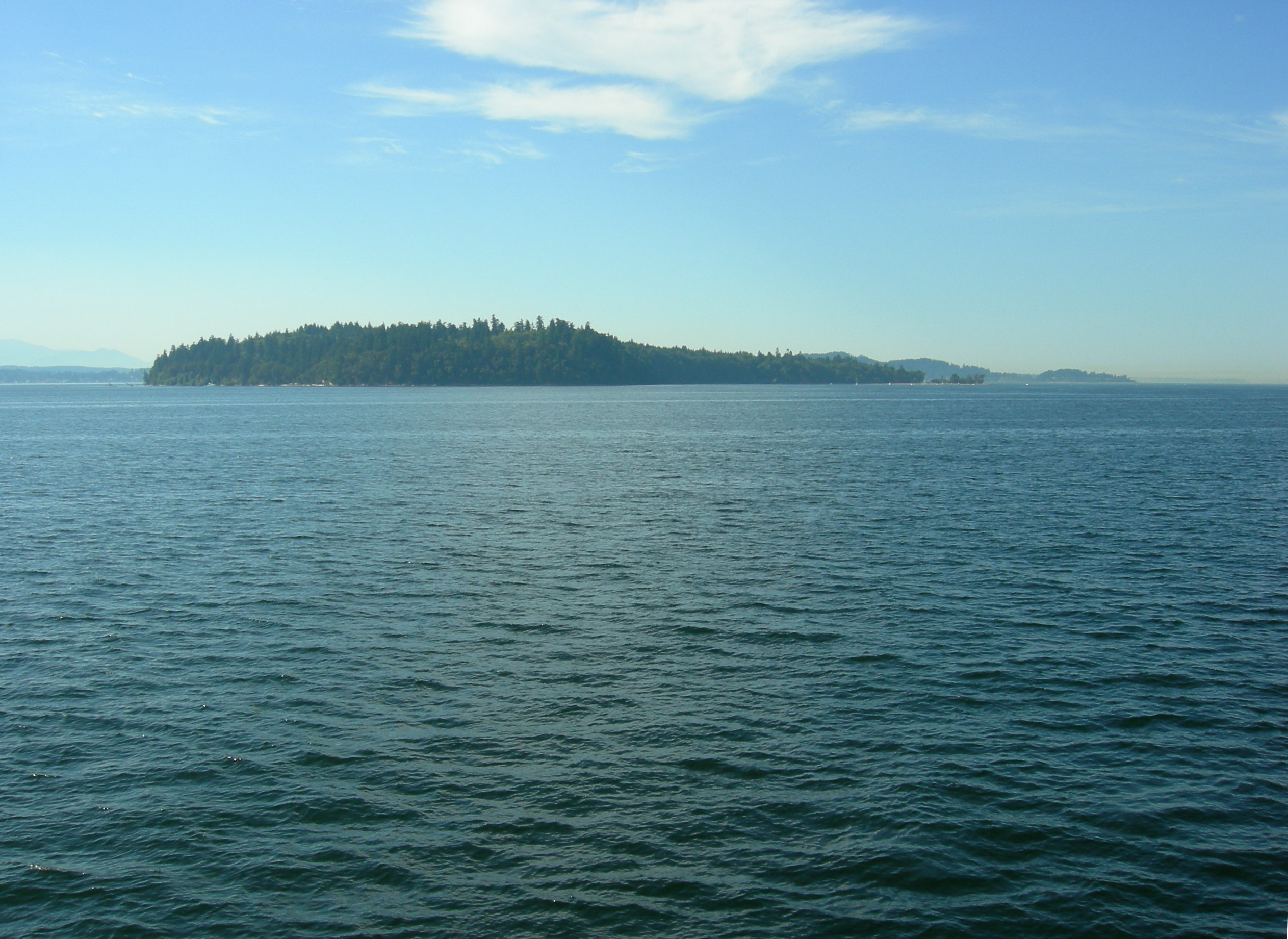 Blake Island, Washington, seen from the North Vashon ferry